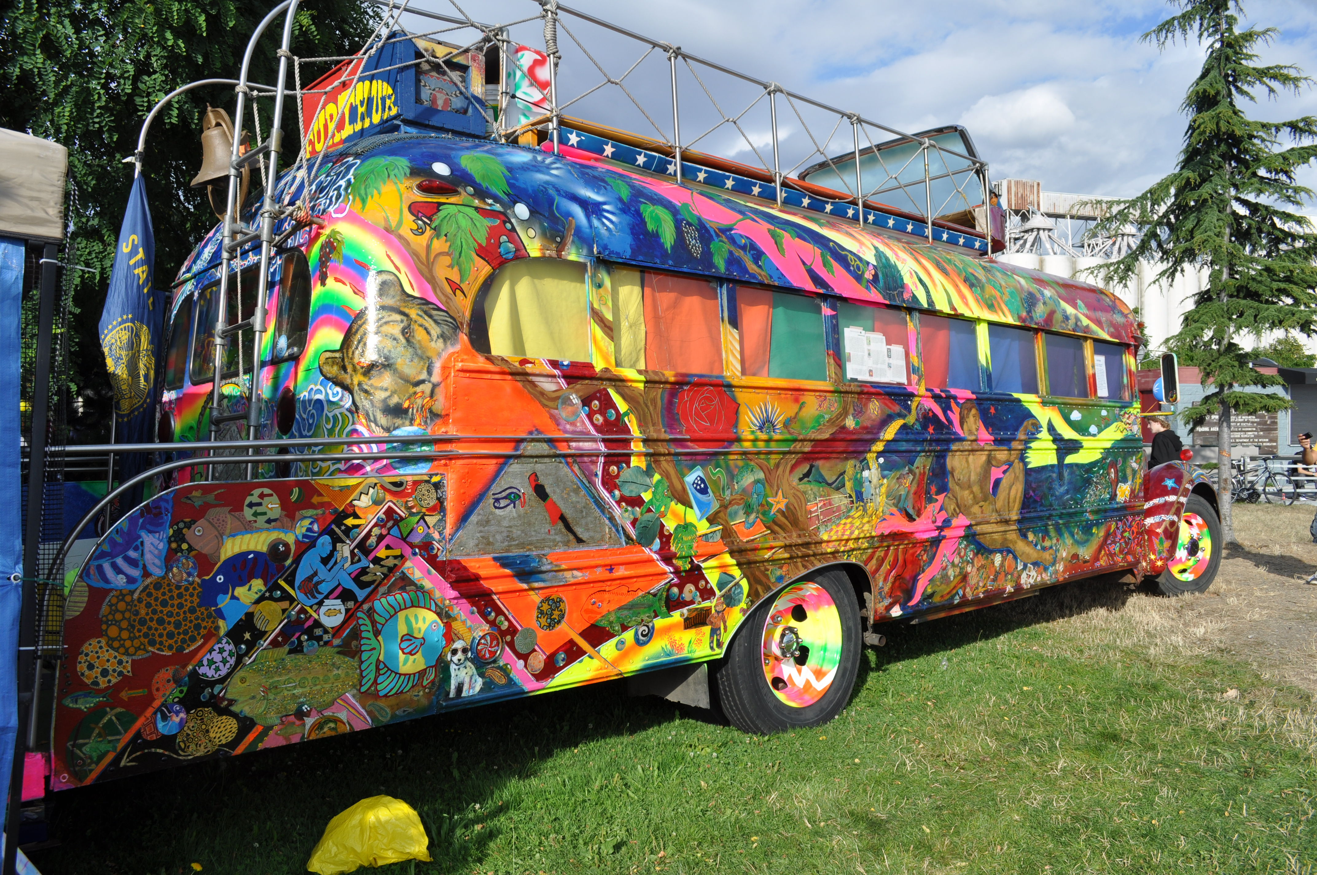 "Further" / "Furthur", Ken Kesey and the Merry Pranksters' famous bus, Hempfest 2010, Myrtle Edwards Park, Seattle, Washington, 2010, at which time it had recently been restored.